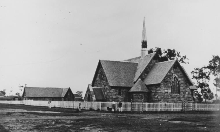 Second St. Mark's Church of England, Warwick, ca. 1872 The inscription on the foundation stone reads: 'In the name of the blessed and undivided Trinity, this stone was laid March 19th A.D. 1868 by the Lord Bishop of the Diocese, in dedication of this church to St. Mark'. Several articles were sealed in the foundation stone, including current coins of the realm, stamps, copies of local papers and records of church conferences. The church was built between 1868 and 1873. The first wooden St. Mark's Church can be seen in the background. (Description supplied with photograph).